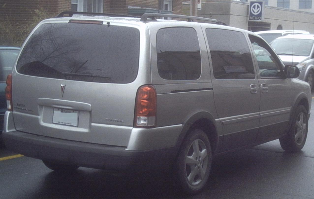 2005-2008 Pontiac Montana SV6 photographed in Montreal, Quebec, Canada.